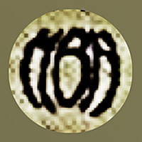 Mabel Betsy Hill's usual signature monogram, here enlarged from a page in The Most Popular Mother Goose Songs (1915)